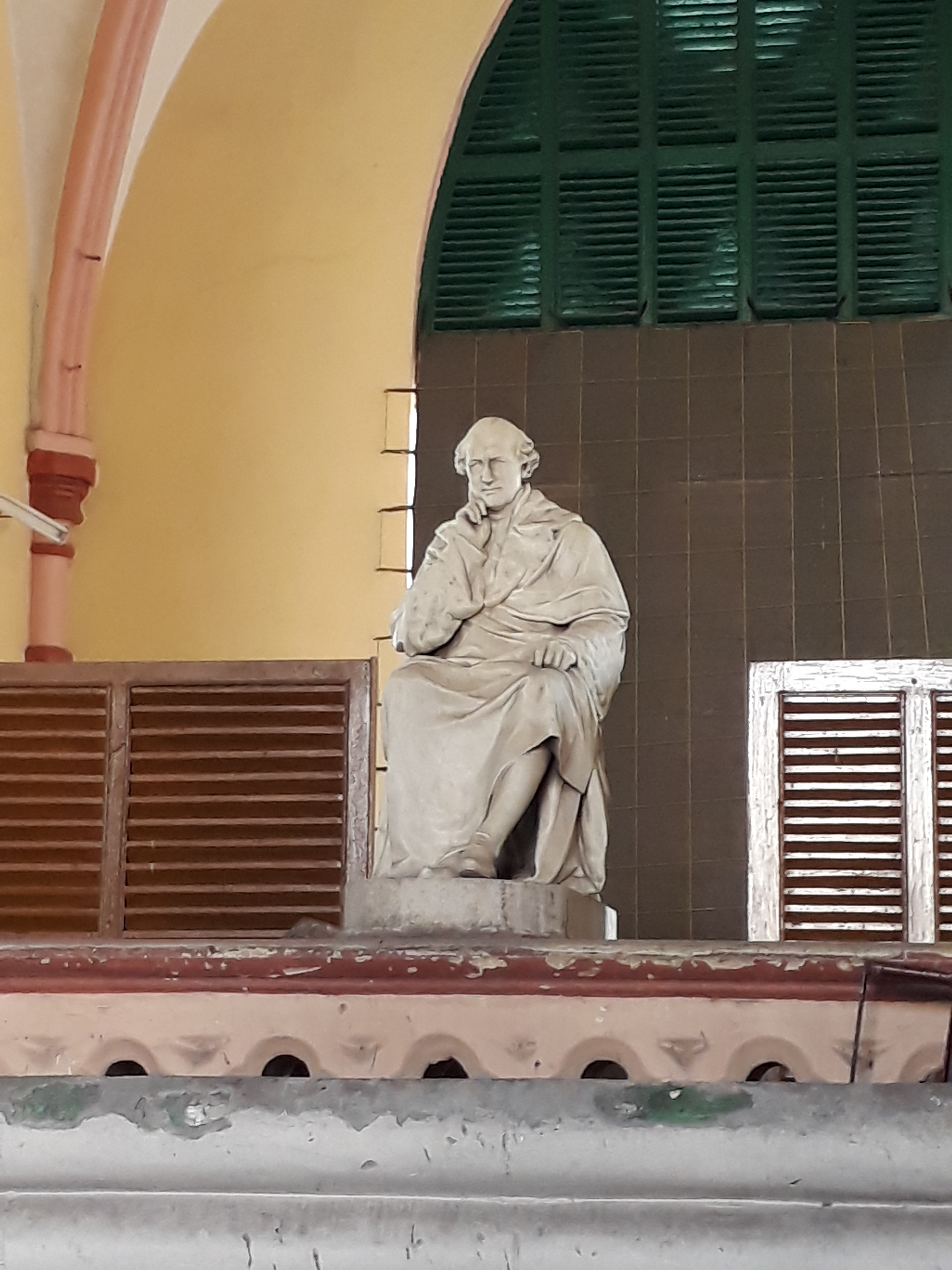 Statue of Sir Edward East 1st Baronet, Calcutta High Court, West Bengal